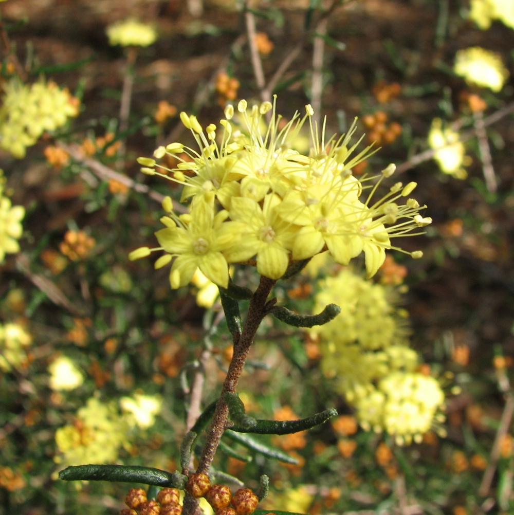 Phebalium stenophyllum (cultivated) Maranoa Gardens, Balwyn, Victoria, Australia